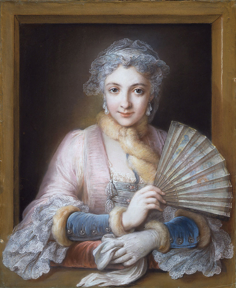 Portrait of Charlotte Philippine de Châtre du Cangé, Marquise de Lamure (1713-1789), wrongly identified as Louise Anne de Bourbon, Mademoiselle de Charolais (1695-1758).